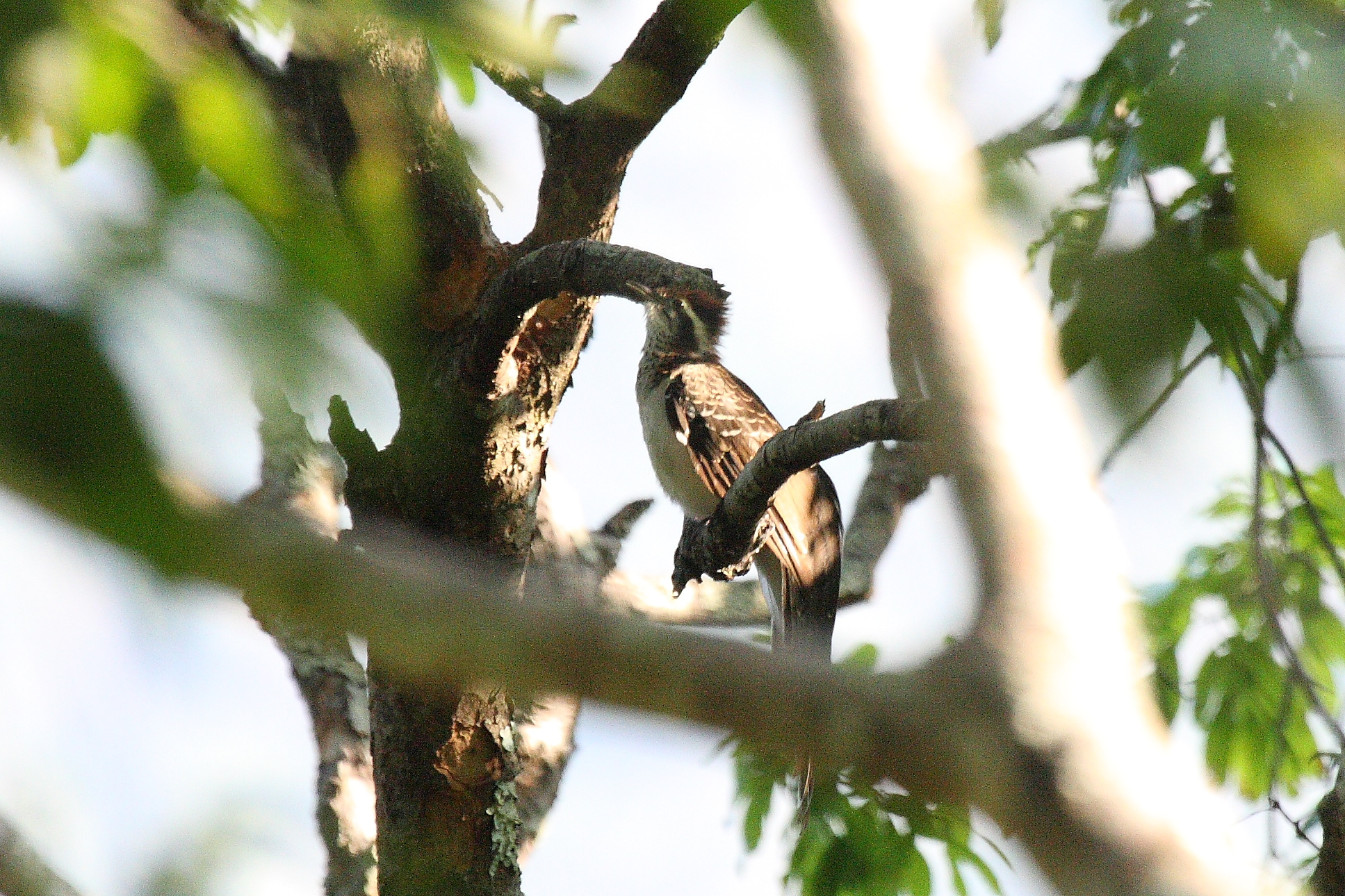 Pheasant Cuckoo Dromococcyx phasianellus, southern Mexico